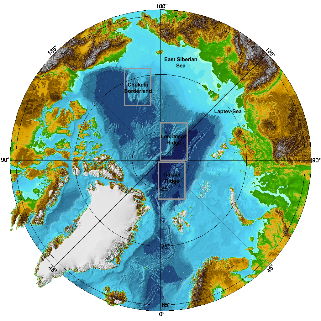 Arctic Ocean, submarine features